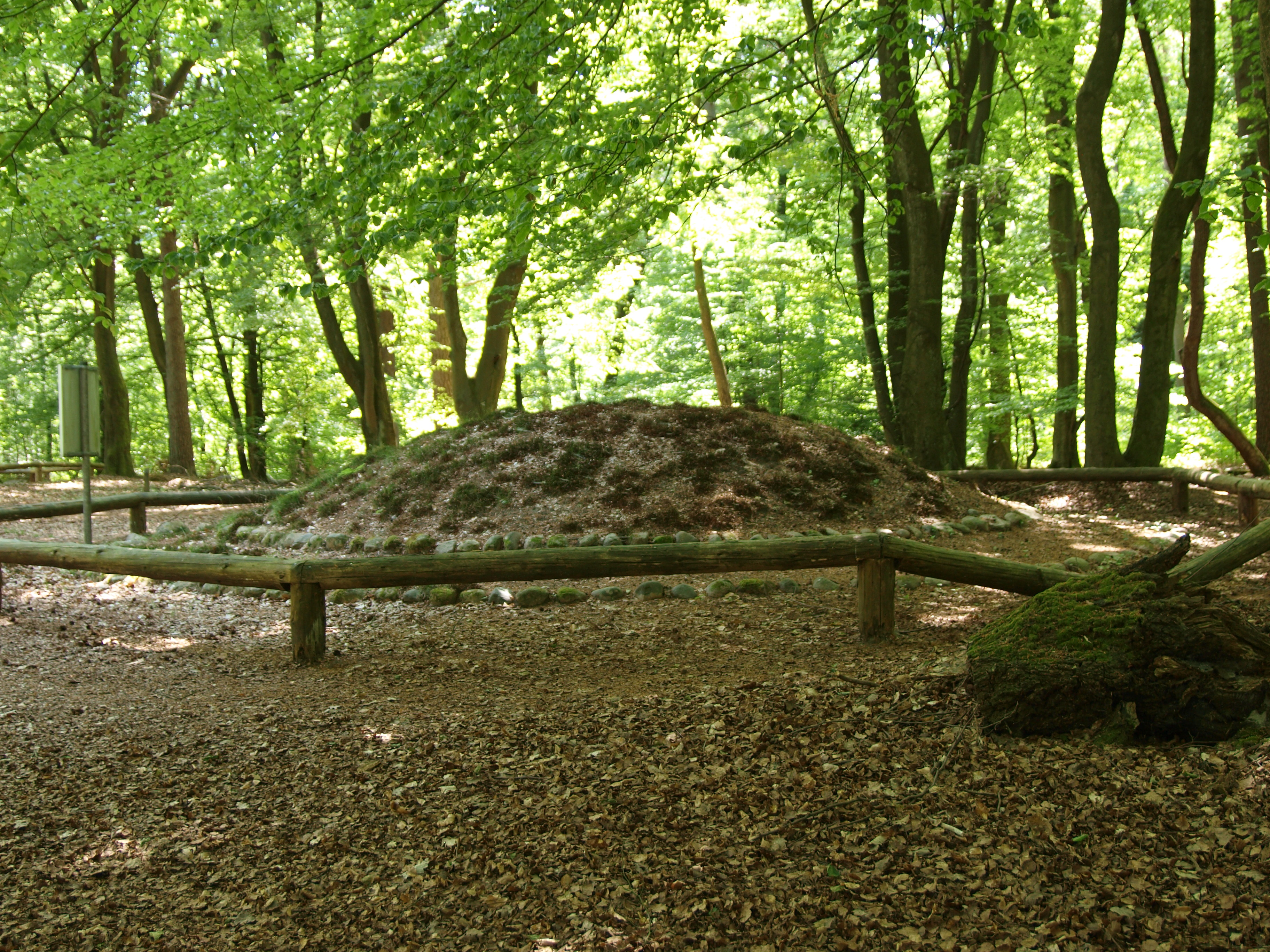 Archaeologic scenic route at Fischbeker Heide, station 7. Reconstructed double-tumulus of the Neolithics and elder Bronze Age. Reconstruction by Archaeological useum Hamburg | Helms-Museum, Hamburg-Harburg, Germany.